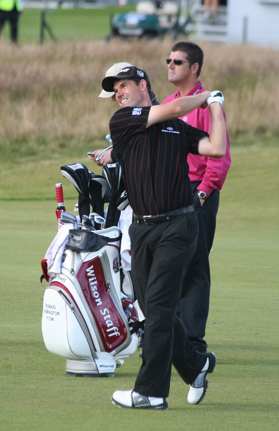 Pádraig Harrington at the 2007 Open at Carnoustie Golf Links, Scotland